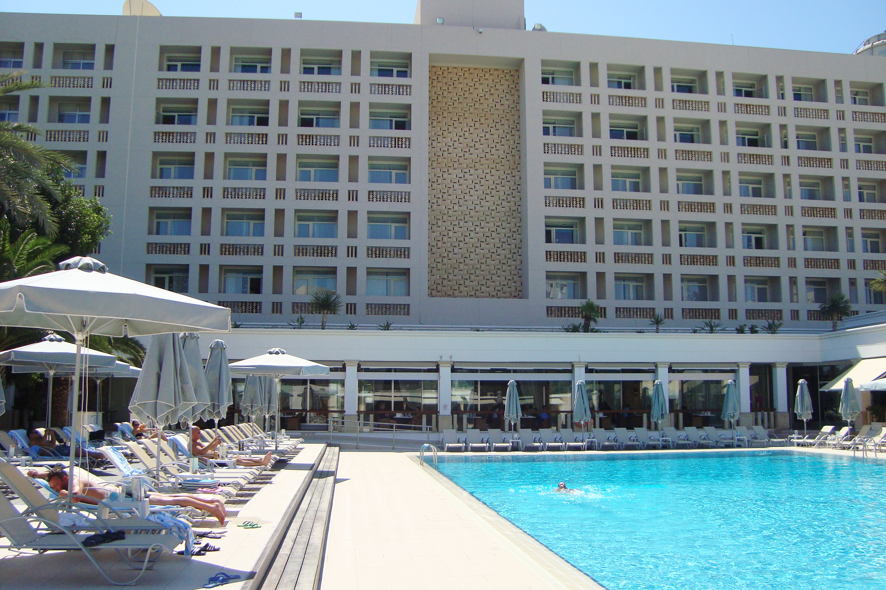 Swimming pool of Hilton Hotel in Nicosia Republic of Cyprus